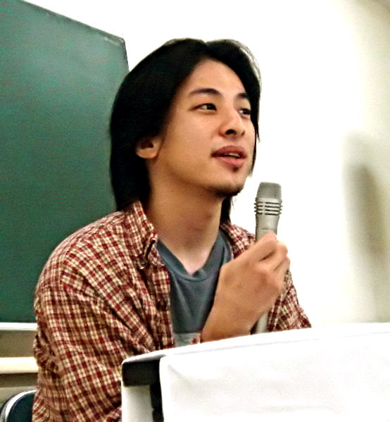 Hiroyuki Nishimura in Sapporo in 2005.